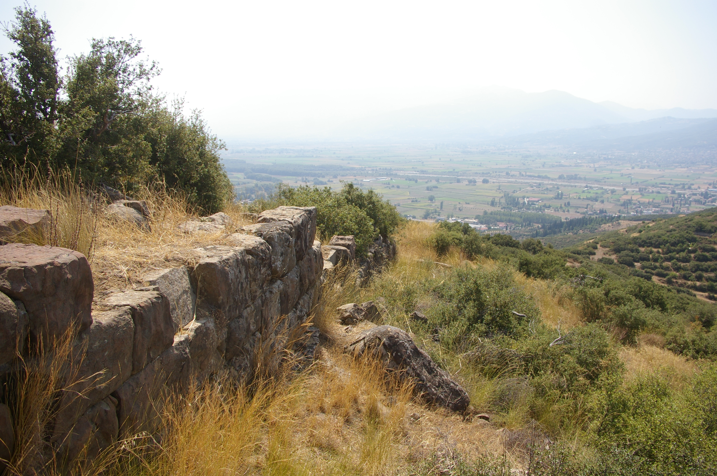 View from N of the Spercheus valley with the city wall of ancient Macra Come closest to the camera.